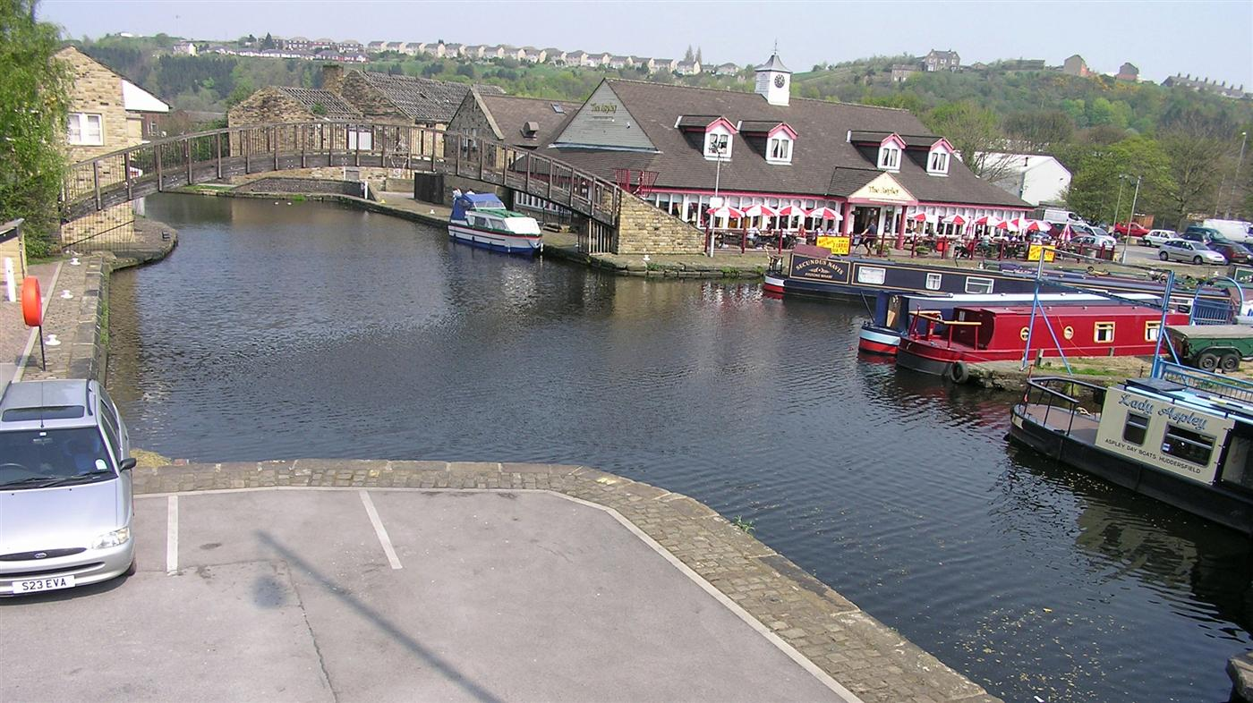 Aspley Basin Marina, where the Huddersfield Broad Canal and the Huddersfield Narrow Canal meet.